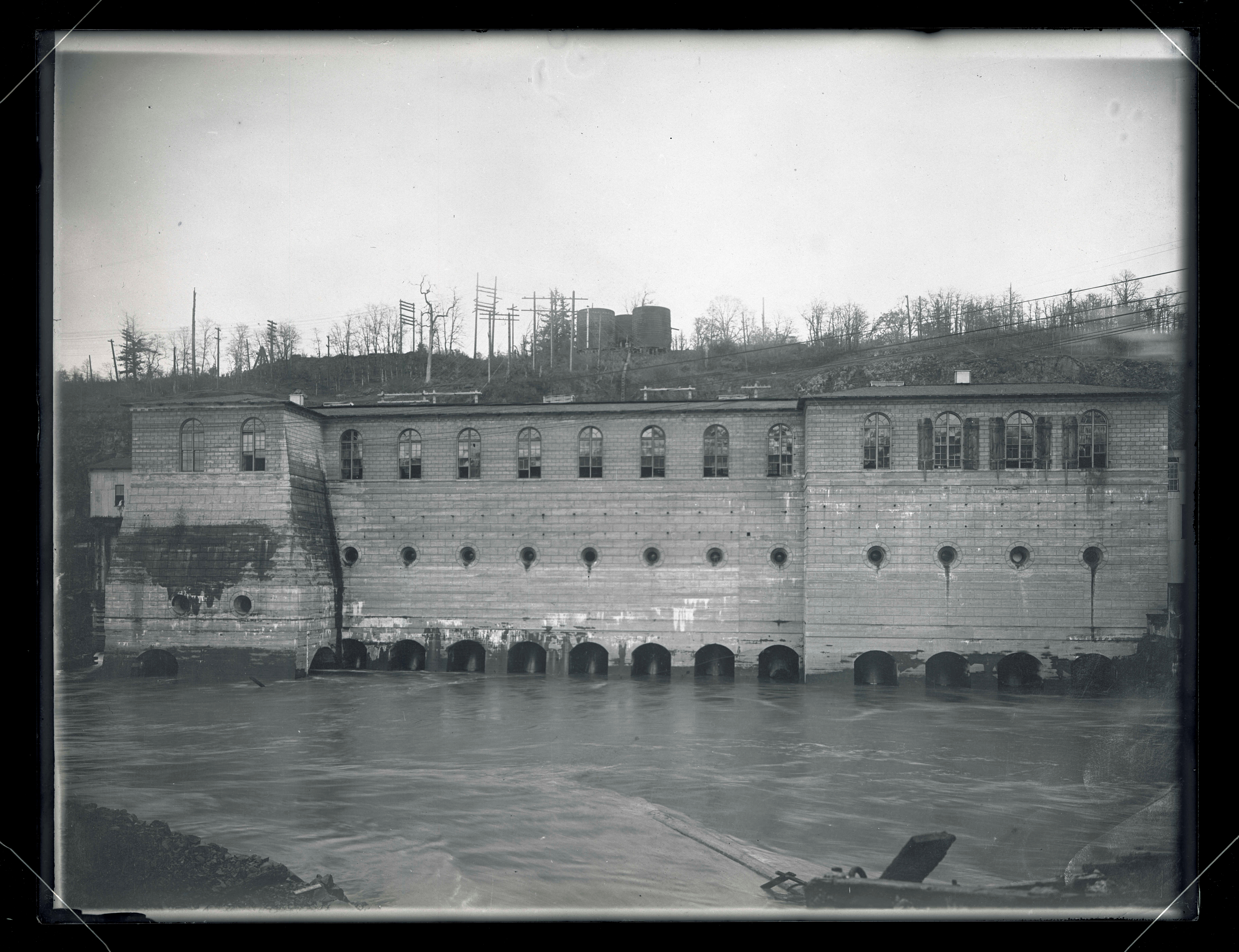 PGE Portland General Electric glass plate photo dame powerhouse Sullivan